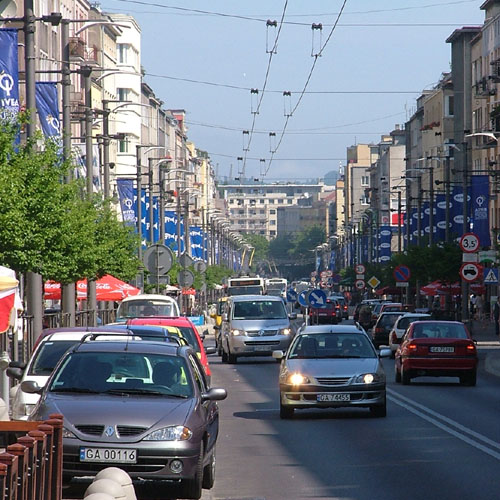 Gdynia, Świętojańska Street (Summer 2005).